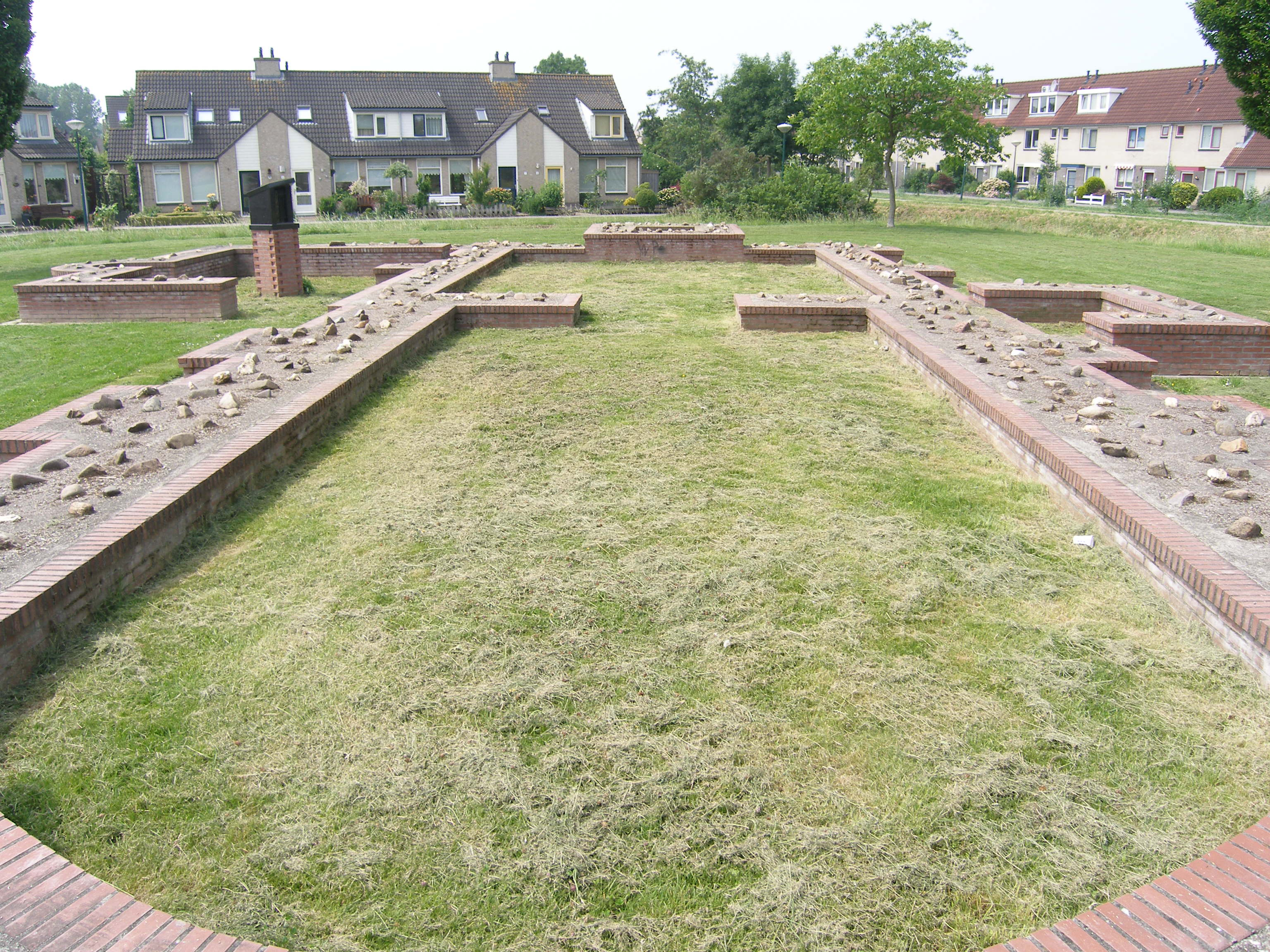 Reconstruction of the foundation of the Eiteren chapel, now in IJsselstein, the Netherlands. The chapel dated from the 10th century and was destroyed in 1579. The reconstruction was made in 2002. The black object contains a replica of the OLV van Eiteren statue.